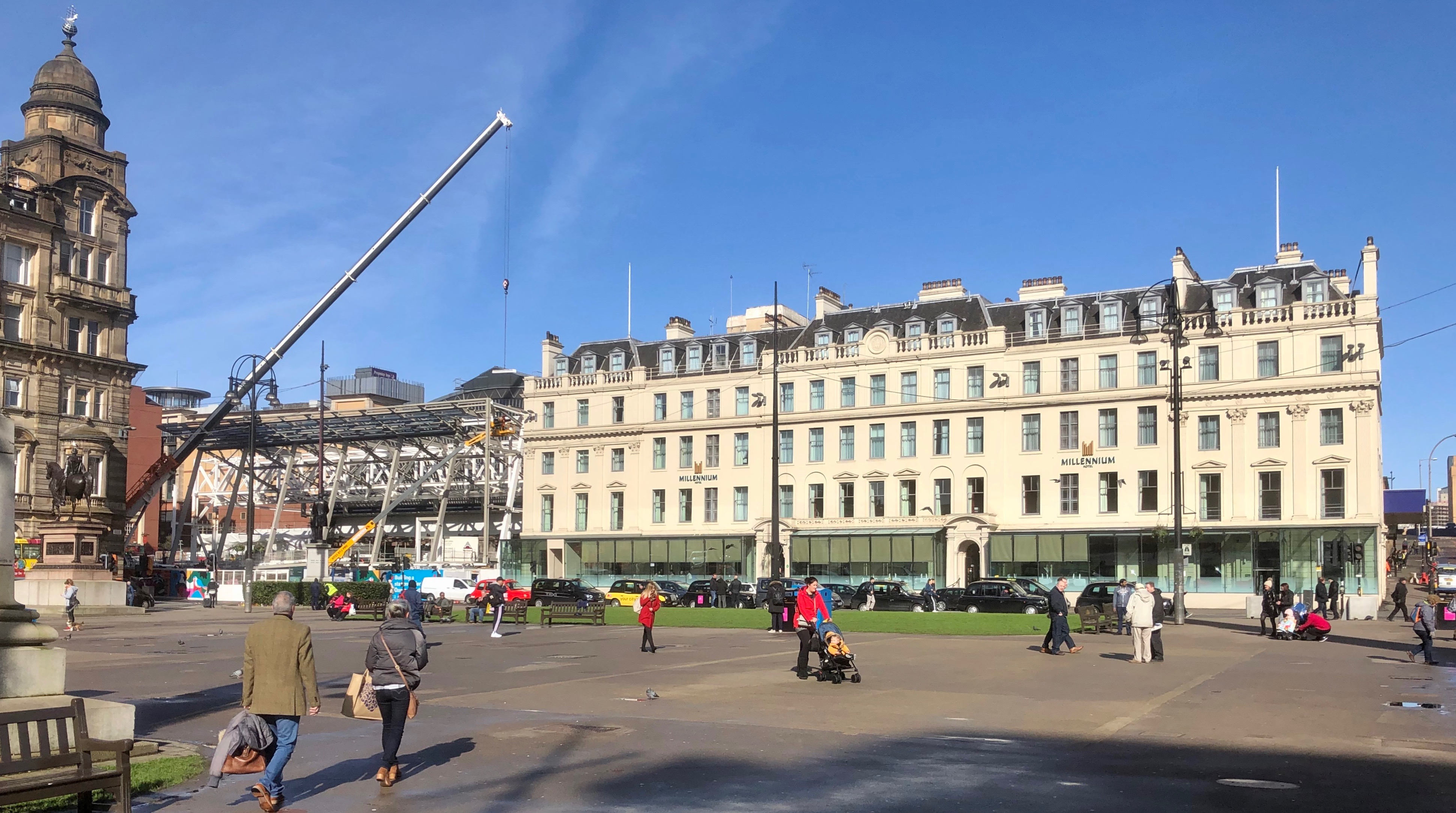 George Square, Glasgow, new entrance to Queen Street Station under construction, former North British Hotel, now Millennium Hotel.